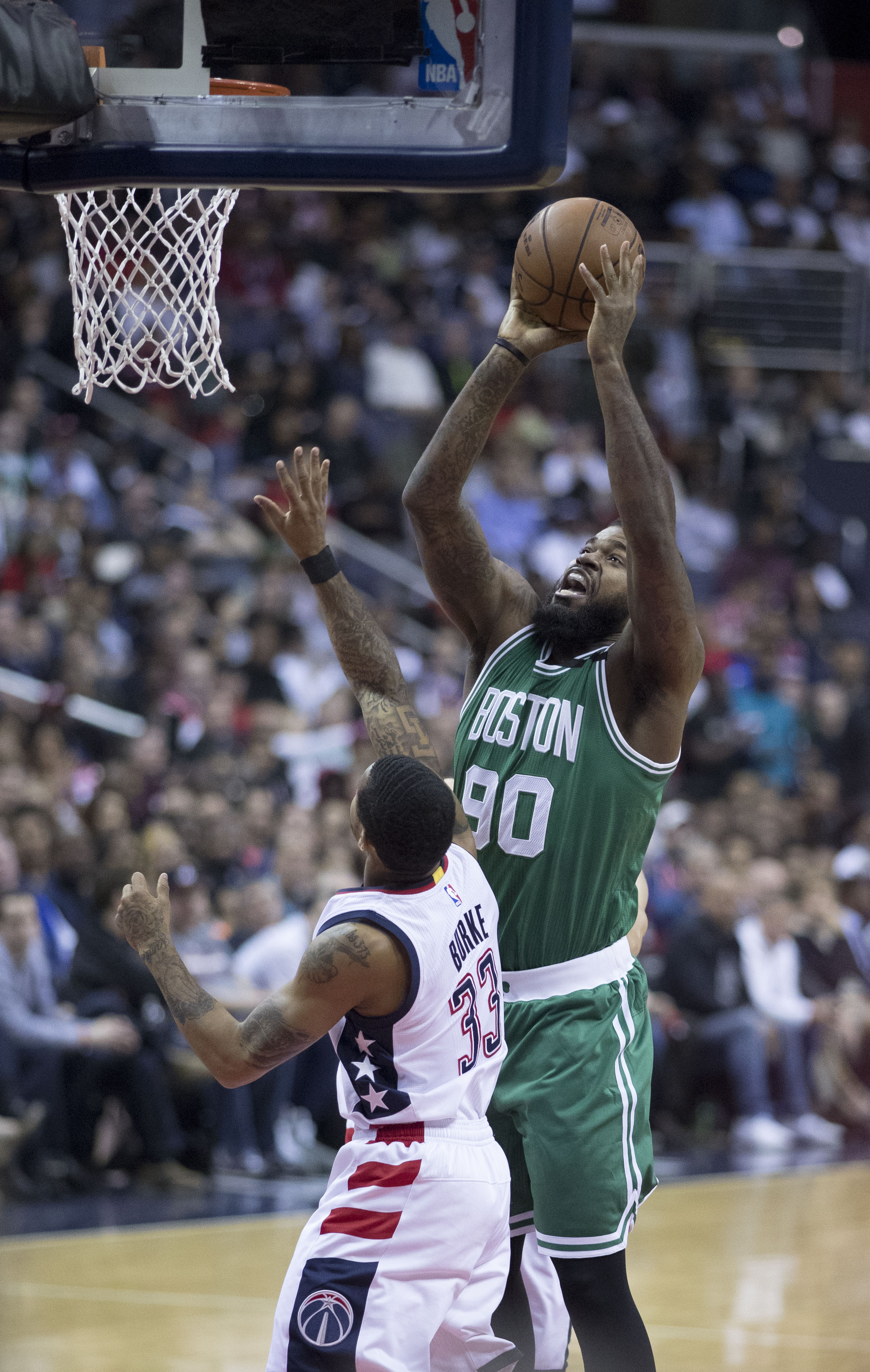 Celtics at Wizards 5/4/17